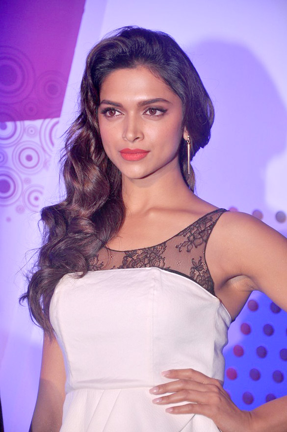 Deepika endorses Yamaha scooters, at the hotel ITC Grand Central, Mumbai.